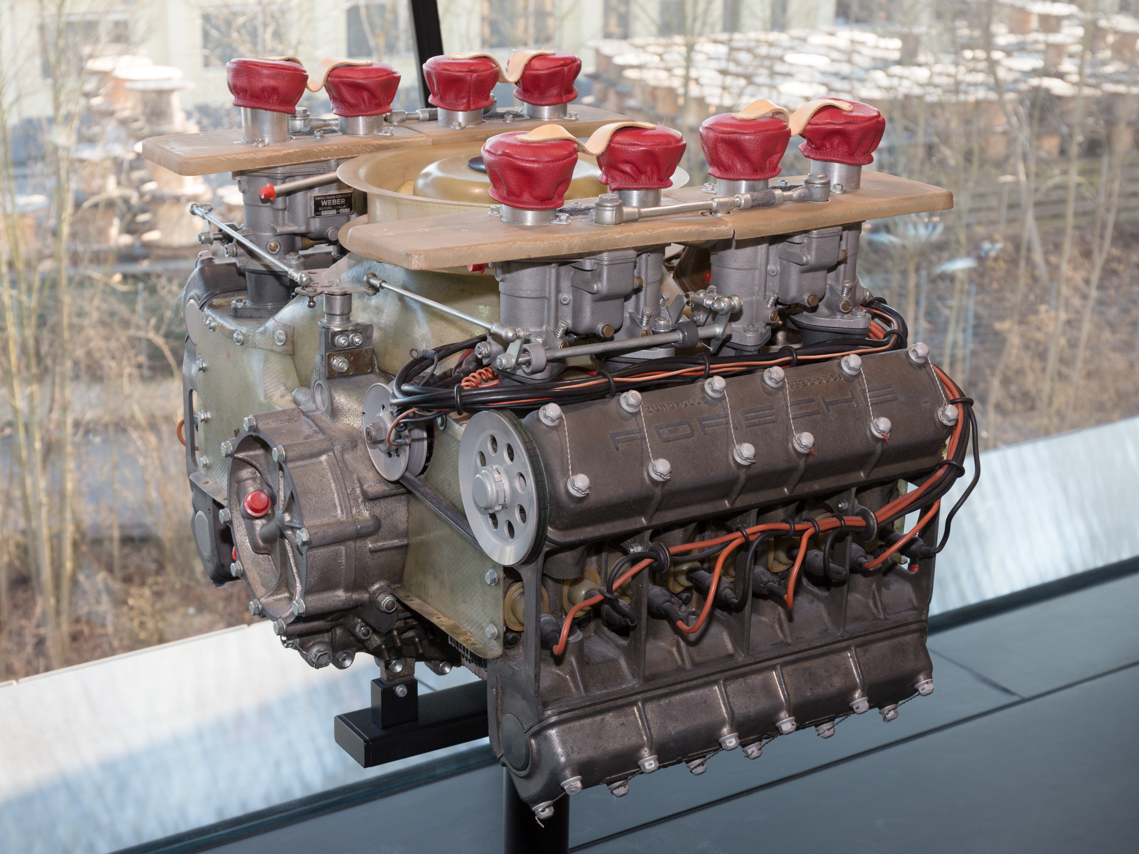 1964 Porsche Typ 771 engine